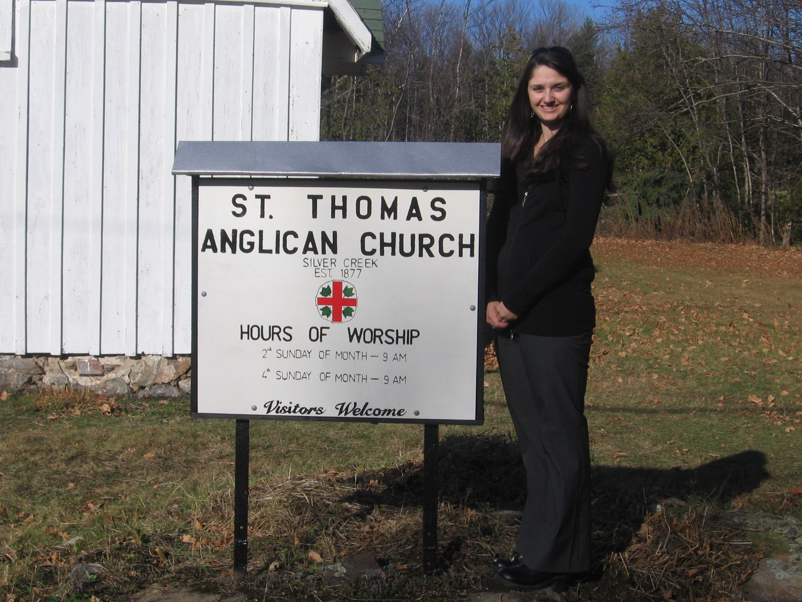 The church sign at St. Thomas Anglican Church in Silver Creek, Quebec, with its creator Marnie Brown, a lifelong parishioner.